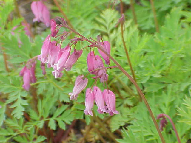 Species: Dicentra formosa Family: Papaveraceae Image No. 1